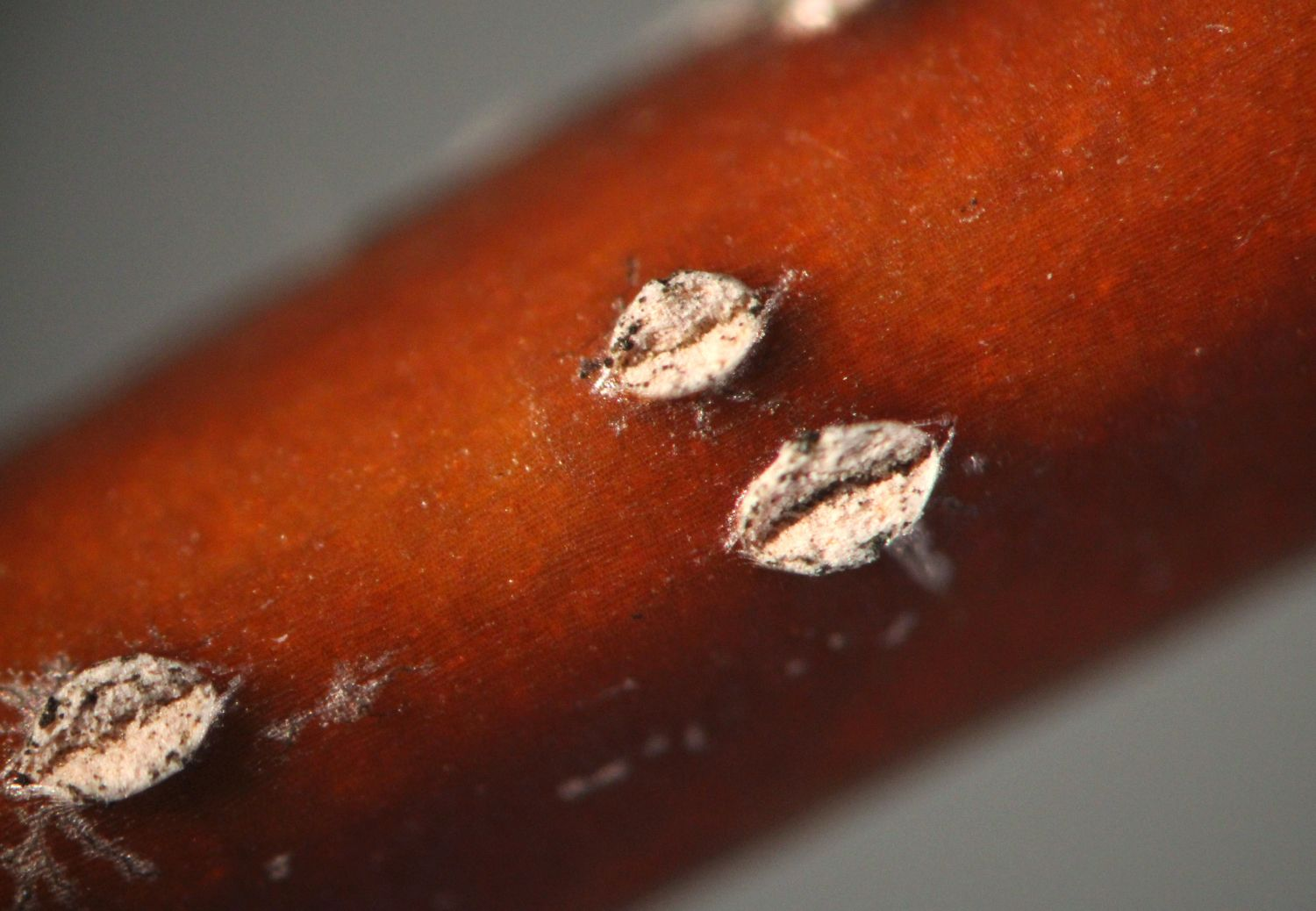 Lenticels on young branch of Sorbus sudetica.